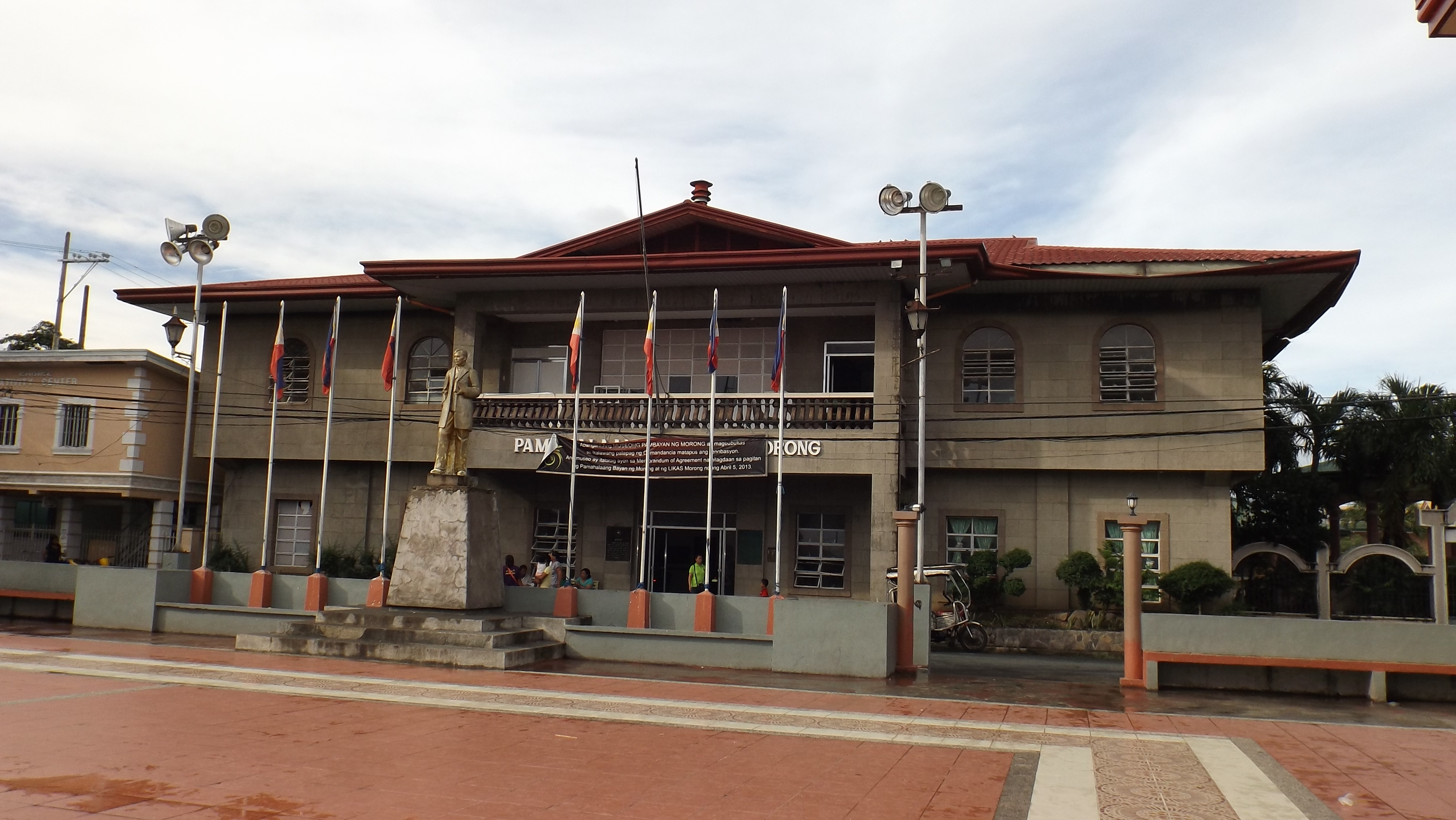 Facade